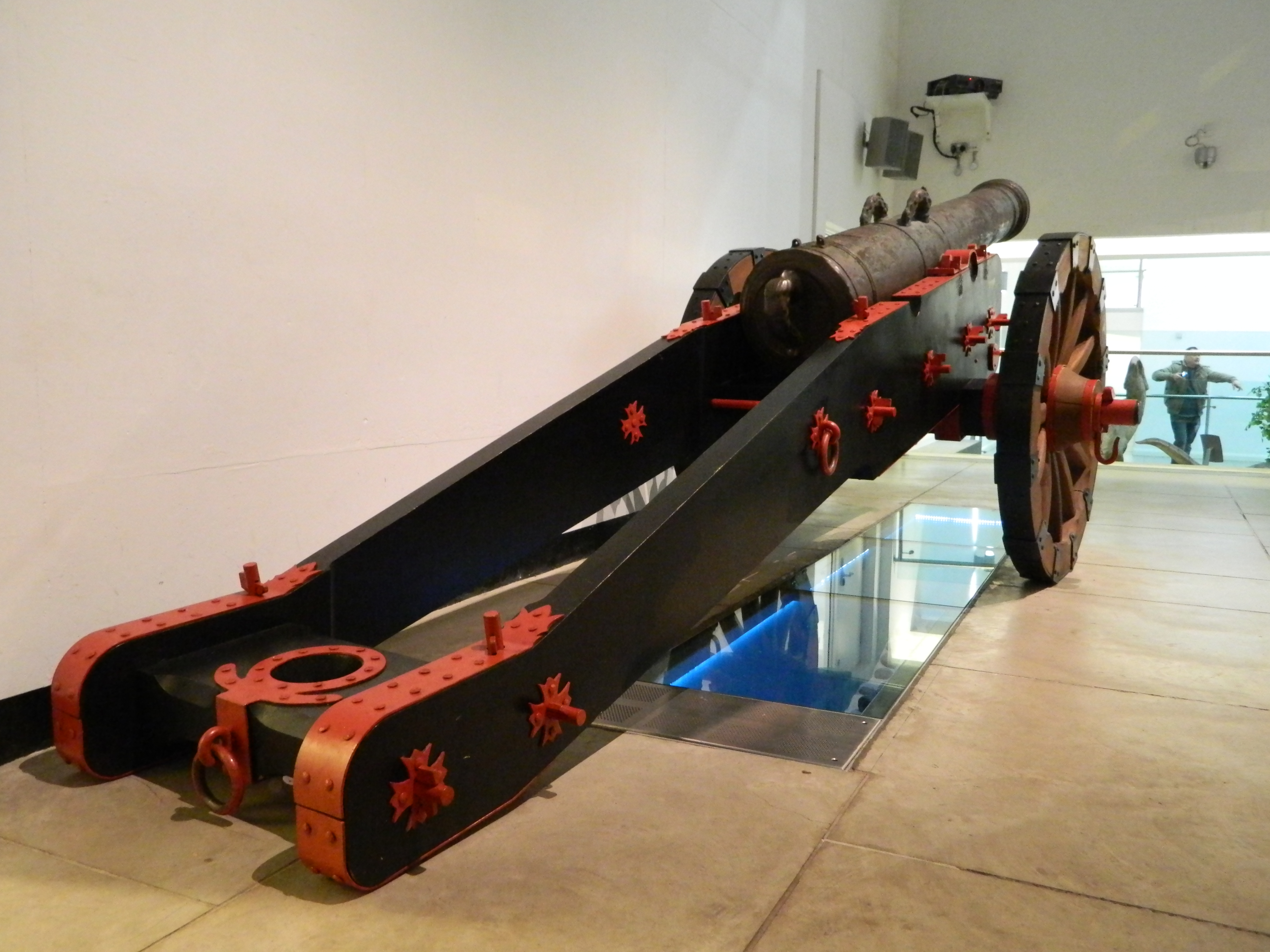 1588 bronze seige gun from the wreck of the Spanish Armada vessel La Trinidad Valencera, recovered from Glenagivney Bay, County Donegal in 1971. Displayed in the Ulster Museum.